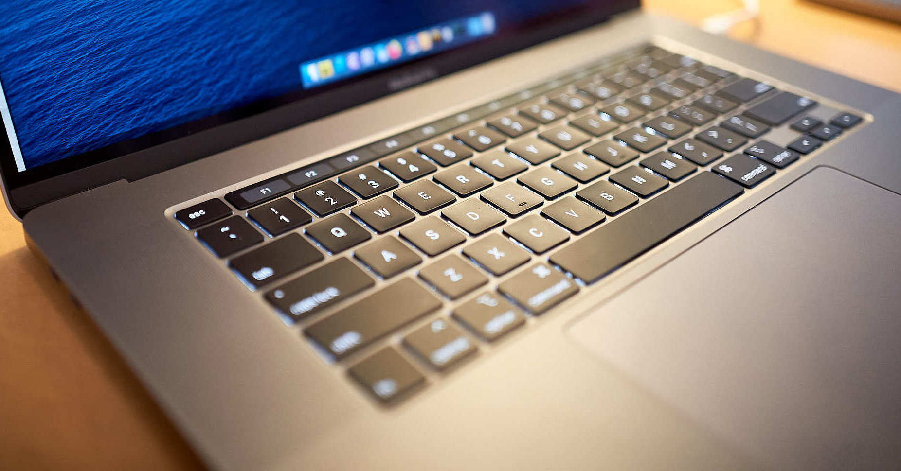 A 2019 MacBook Pro, showing the return to half-height left and right arrow keys.